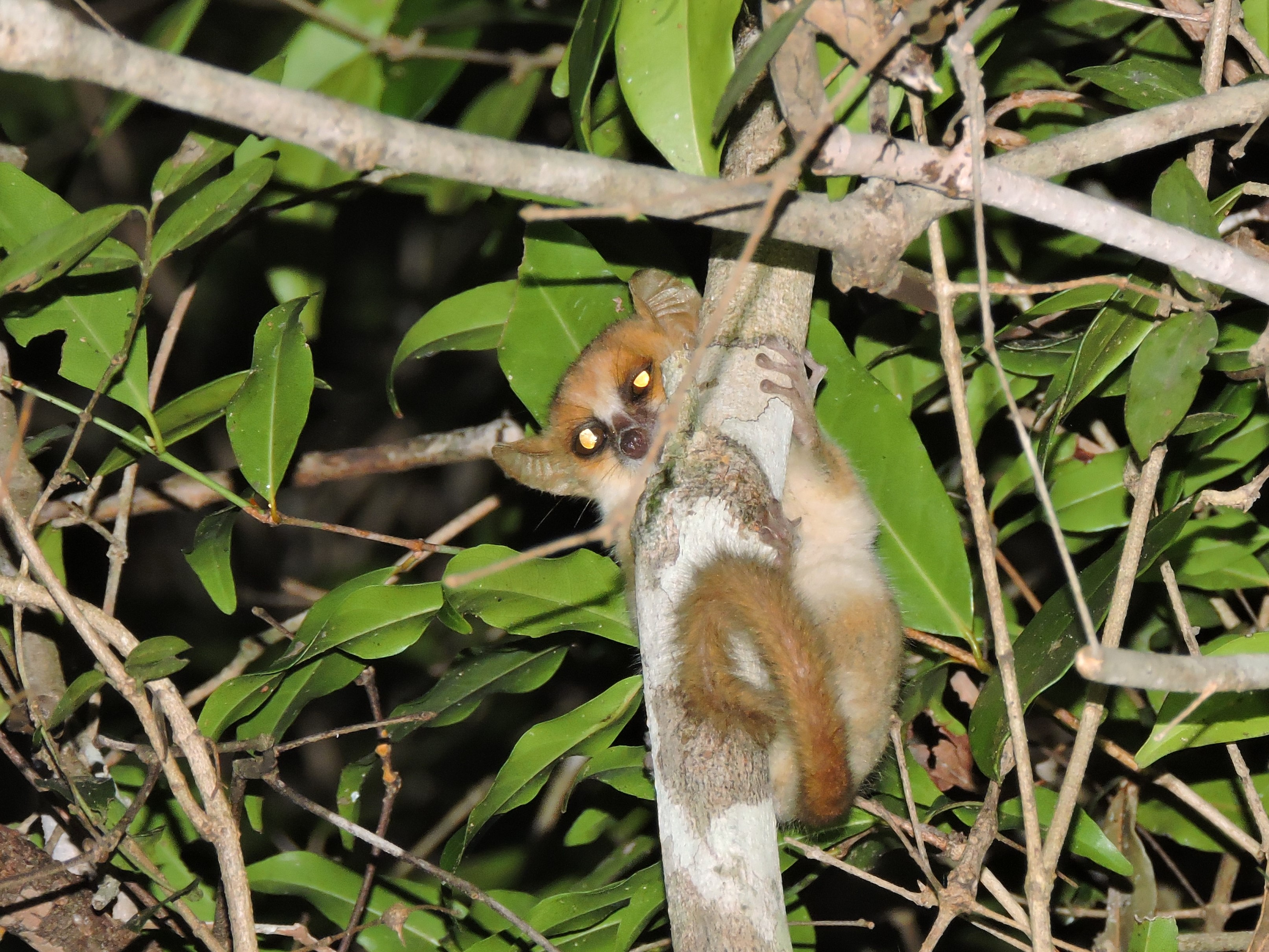 Madame Berthe's Mouse Lemur (Microcebus berthae) in Kirindy Forest Reserve, Madagascar. June 2016.